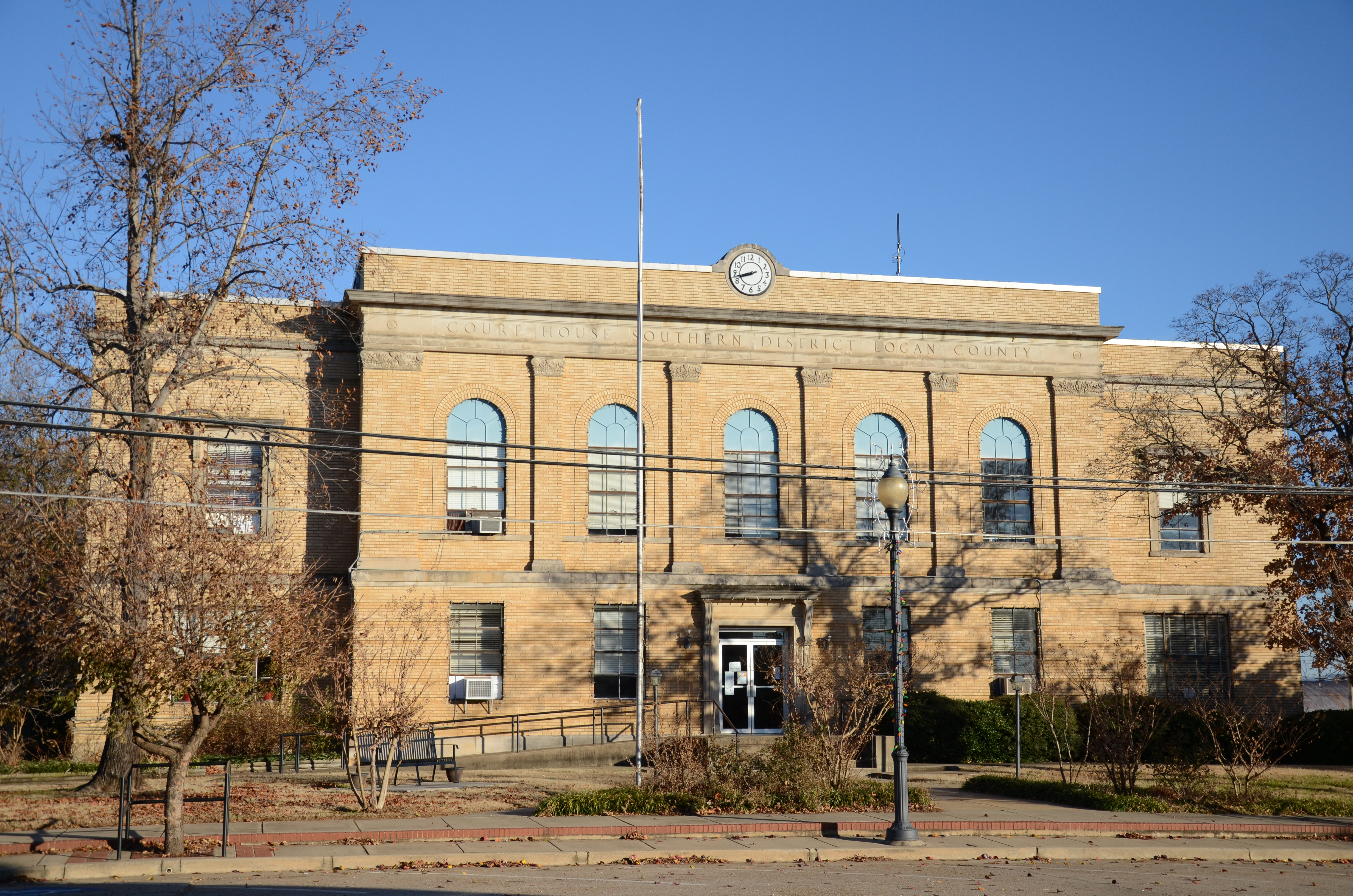 Logan County Courthouse, Southern Judicial District, Southeastern corner of the junction of 4th and N. Broadway Sts. Booneville